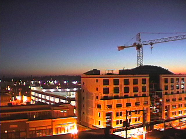 Late night construction in Downtown Bend, Oregon.